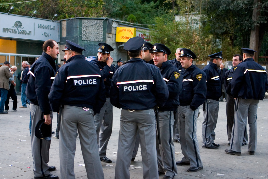 Georgian policemen on duty.